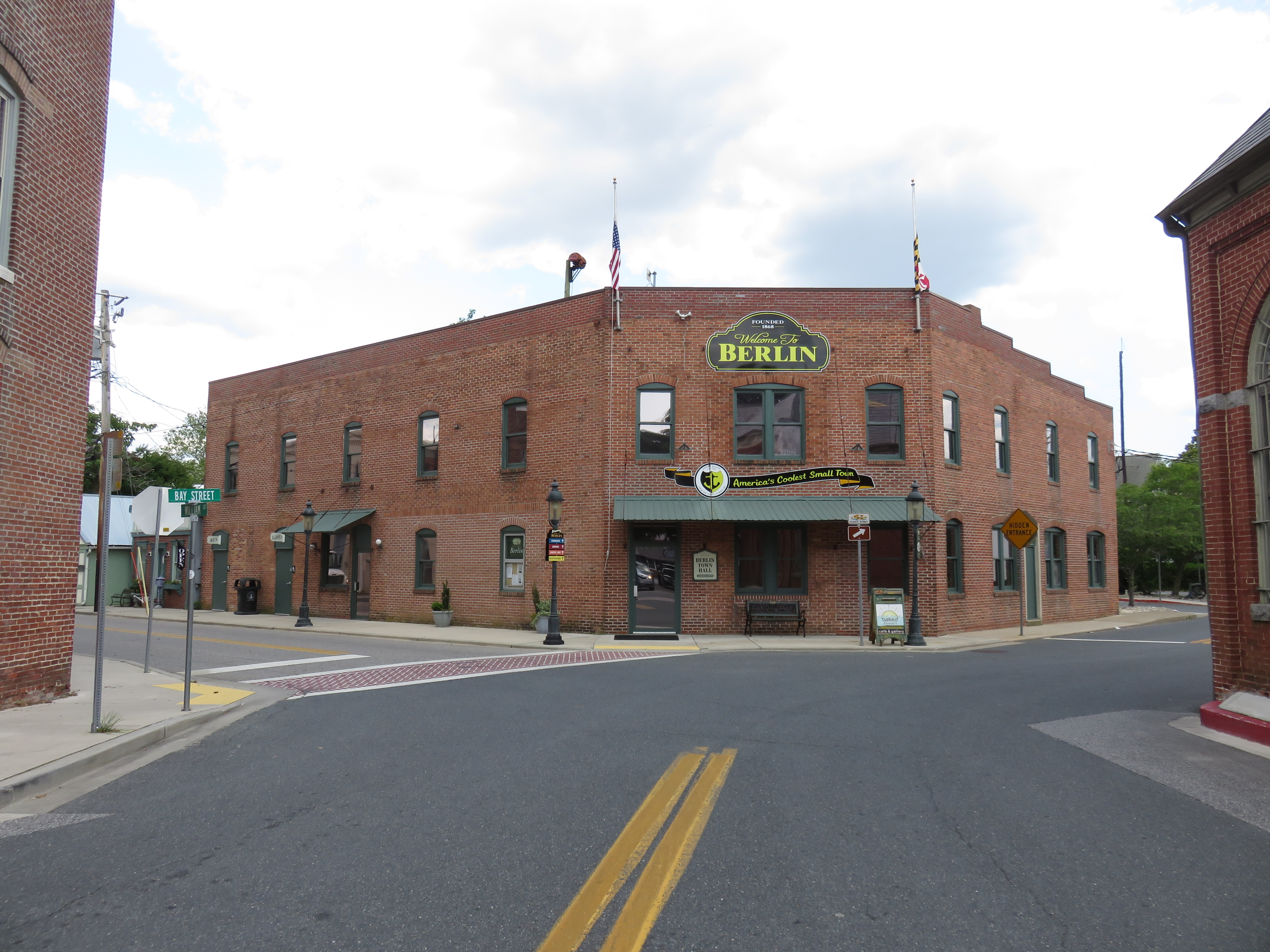 Berlin, Maryland Town Hall in 2019